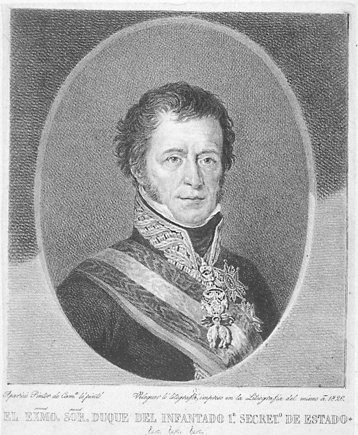 Portrait of Pedro de Alcántara Álvarez de Toledo (1768-1841). XIII Duke of Infantado